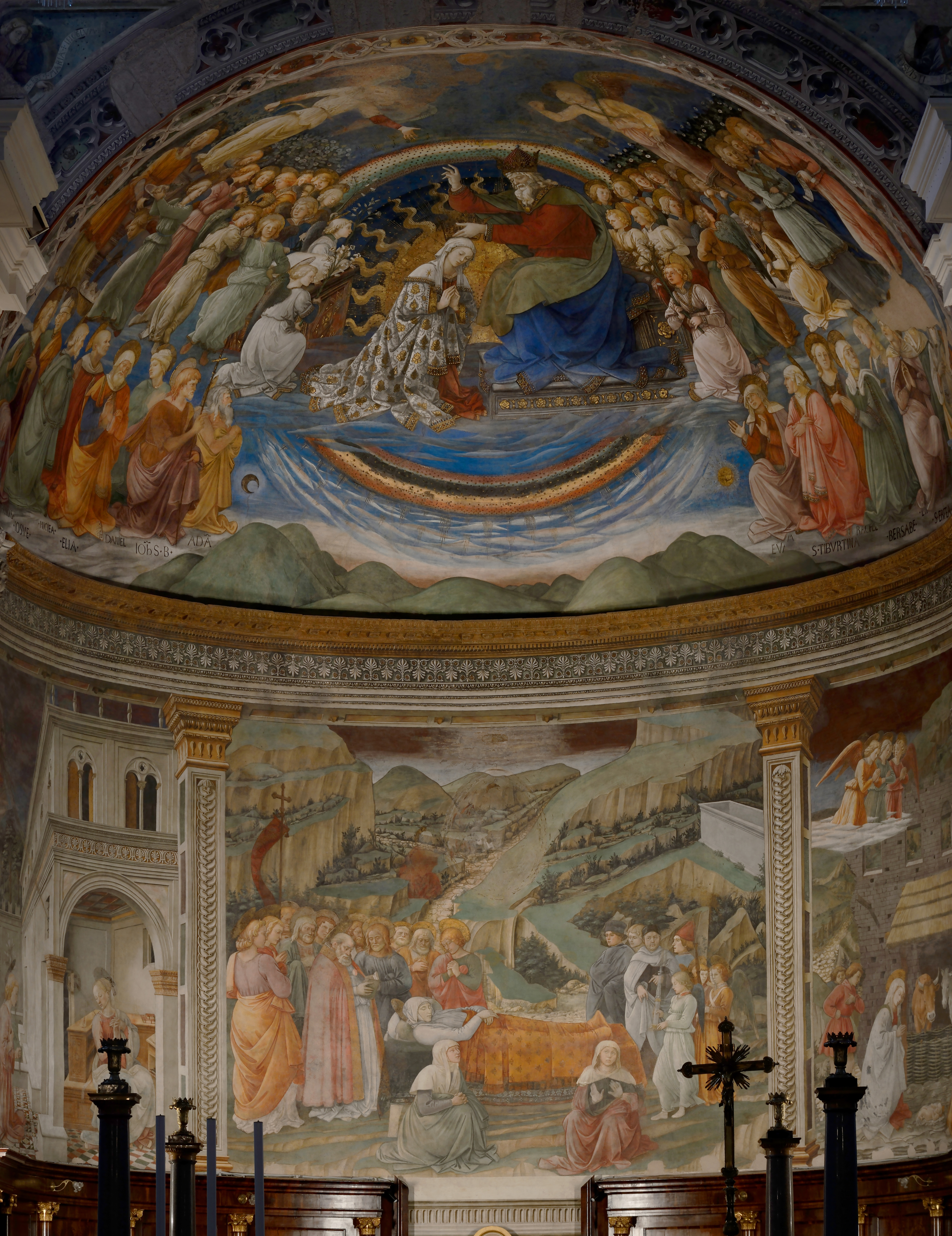 Medieval fresco on Duomo of Spoleto